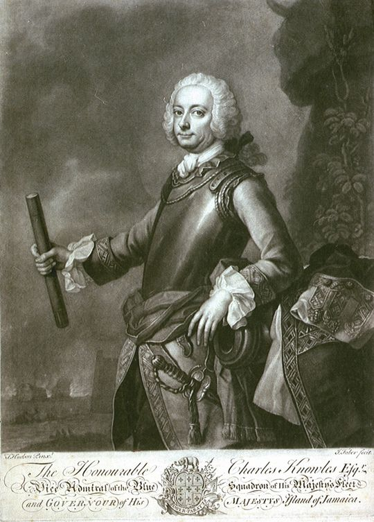 The Honourable Charles Knowles Esqr Vice Admiral of the Blue Squadron of His Majesty's fleet and Governour of His Majestys Island of Jamaica